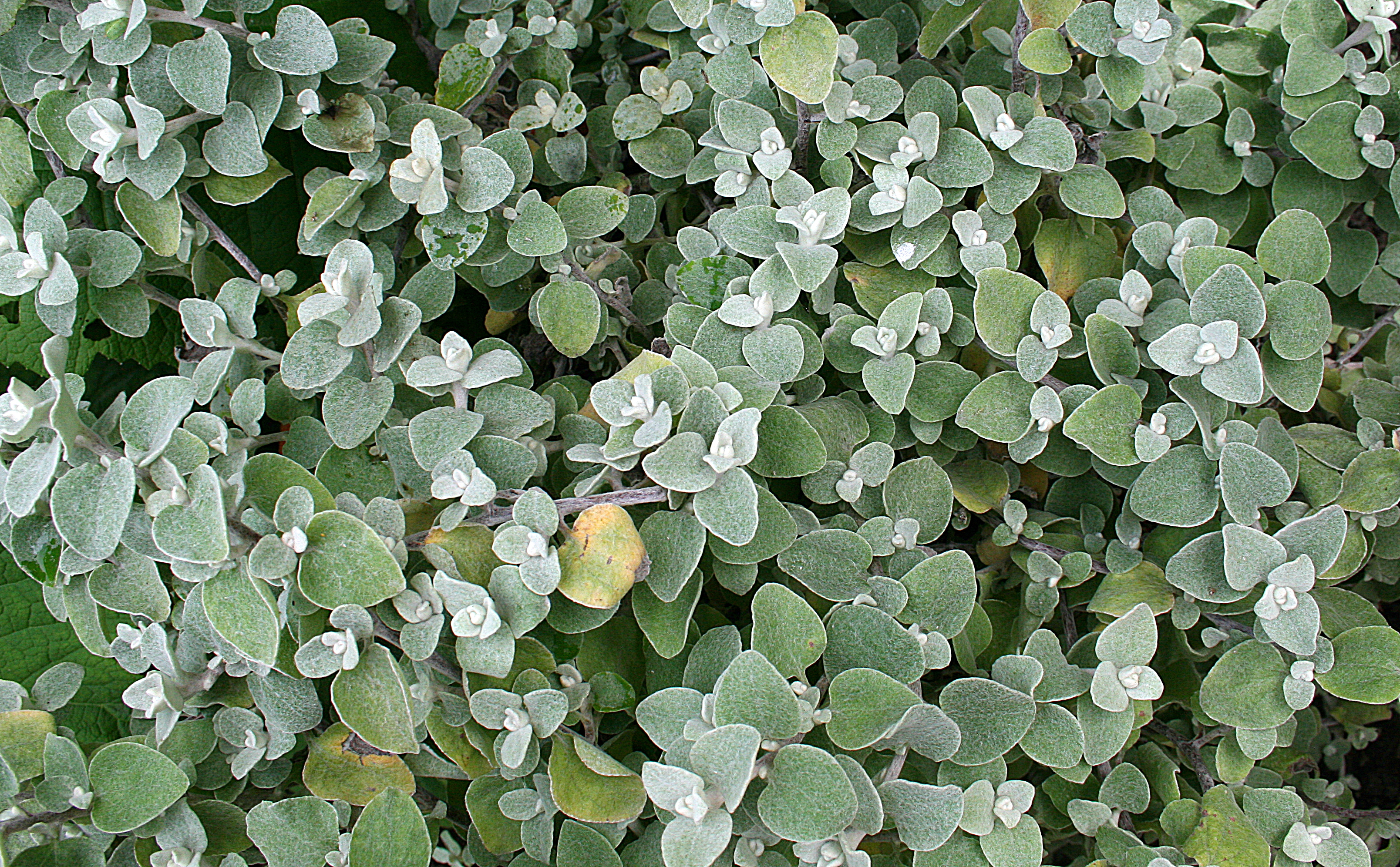 Licorice-plant